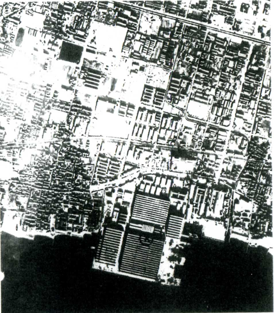 Konan factory, Kawanishi Aircraft Company